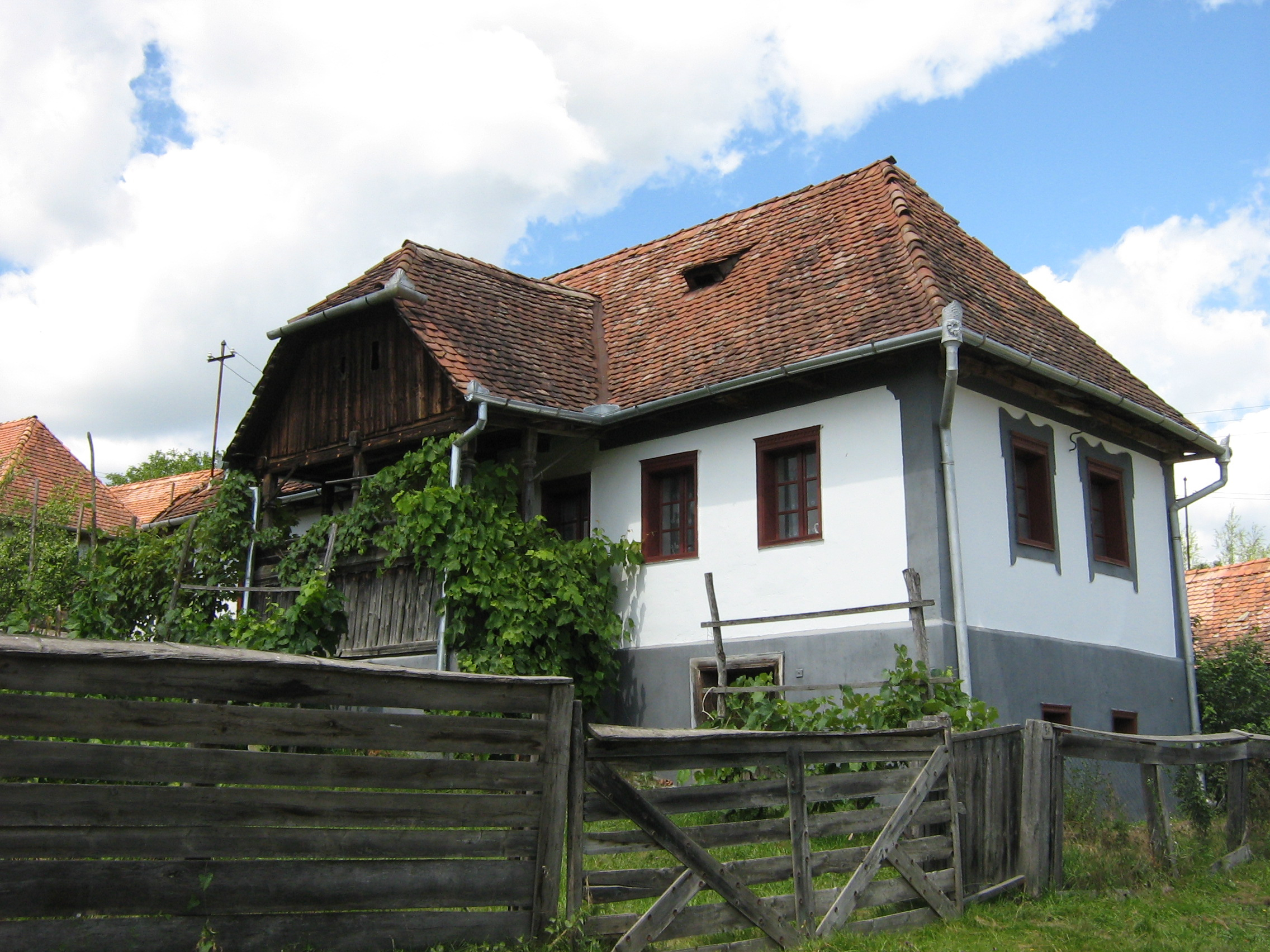 House in Abud (Romania)